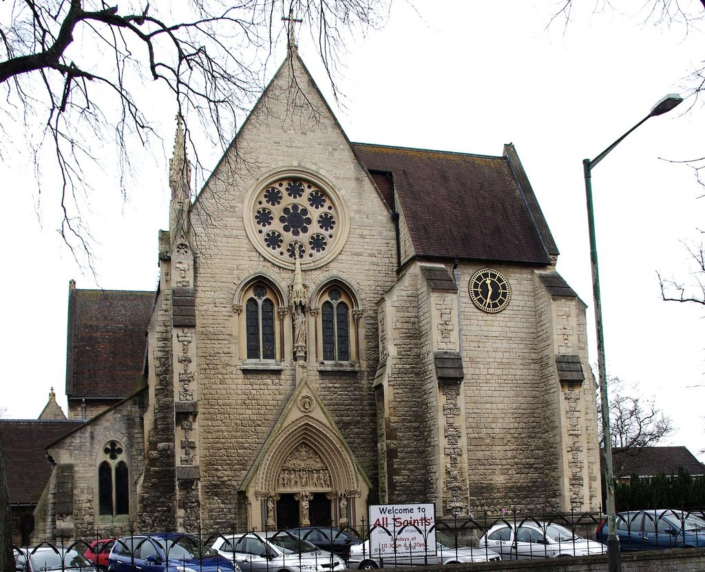 Photograph of All Saints Church, Cheltenham